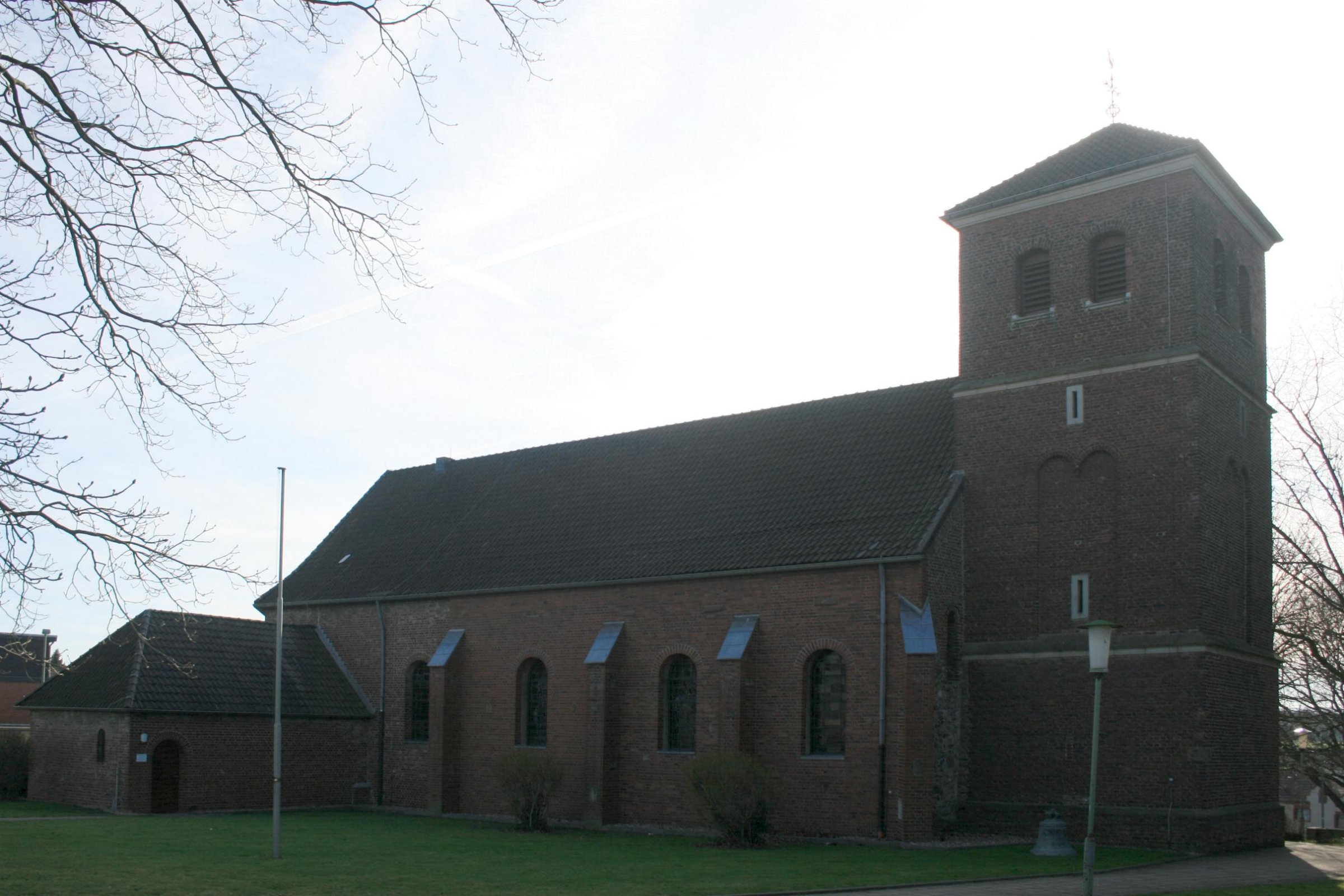 Cultural heritage monument No. 55 in Jülich